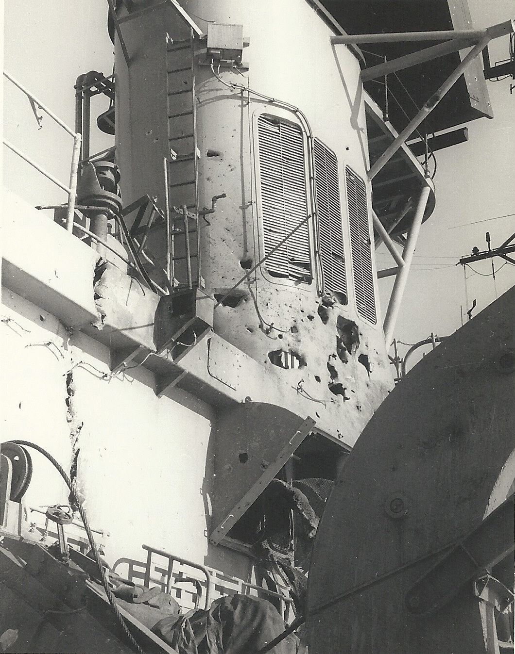 "After funnel area. Rod warhead damage. Looking forward. Eleven men were in the compartment where that slash is. Metal and equipment went everywhere. The opposite bulkhead is speckled with pockmarks. No one was hurt! Large object in foreground is boat davit. Other one doesn't show, it was flattened." - Cmdr. R.J. Varley